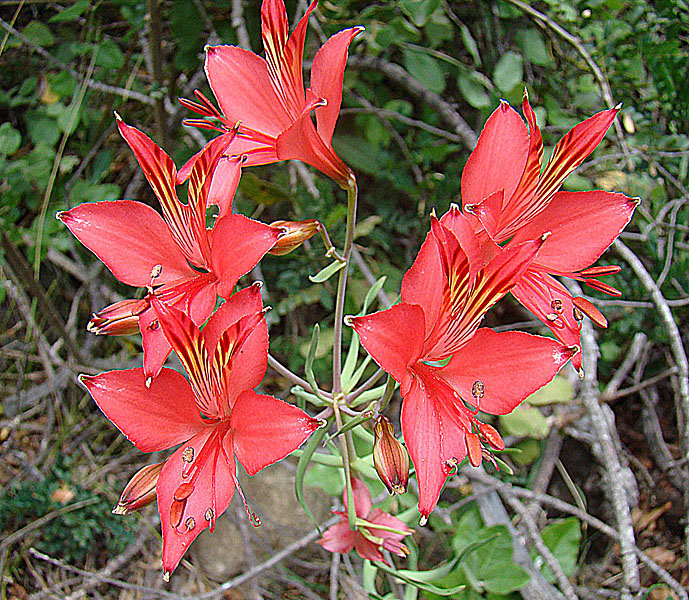 From Rio Ancoa Valley, Chile taxonomy:trinomial="Alstroemeria ligtu ligtu" geo:lat=-35.051 geo:long=-70.660